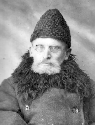 Pšemislas (Pšemislovas) Neveravičius (1865–1936), inventor of eight-wheeled vehicle, Lithuania